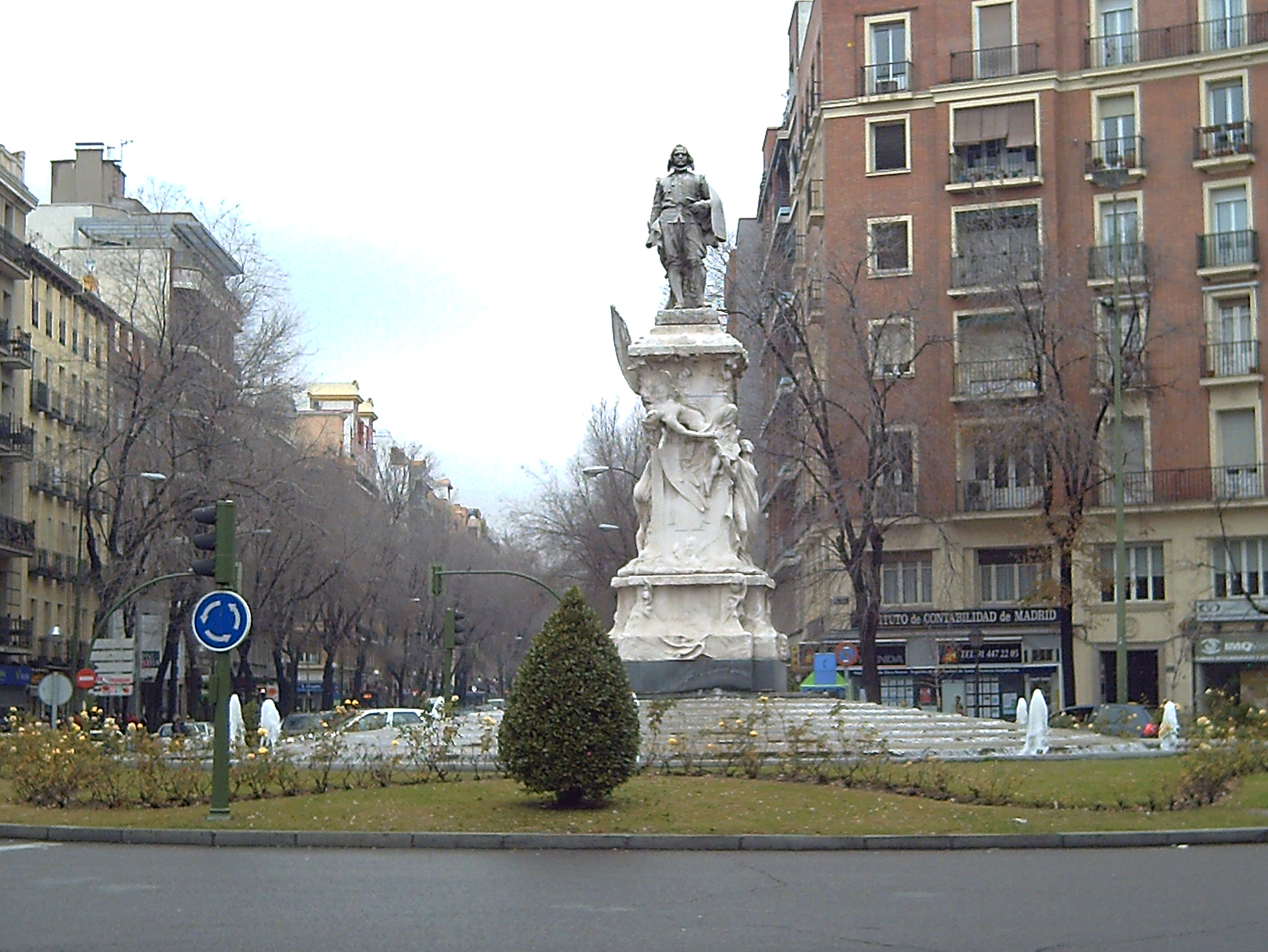 View of the Monument to Quevedo in Madrid (Spain).